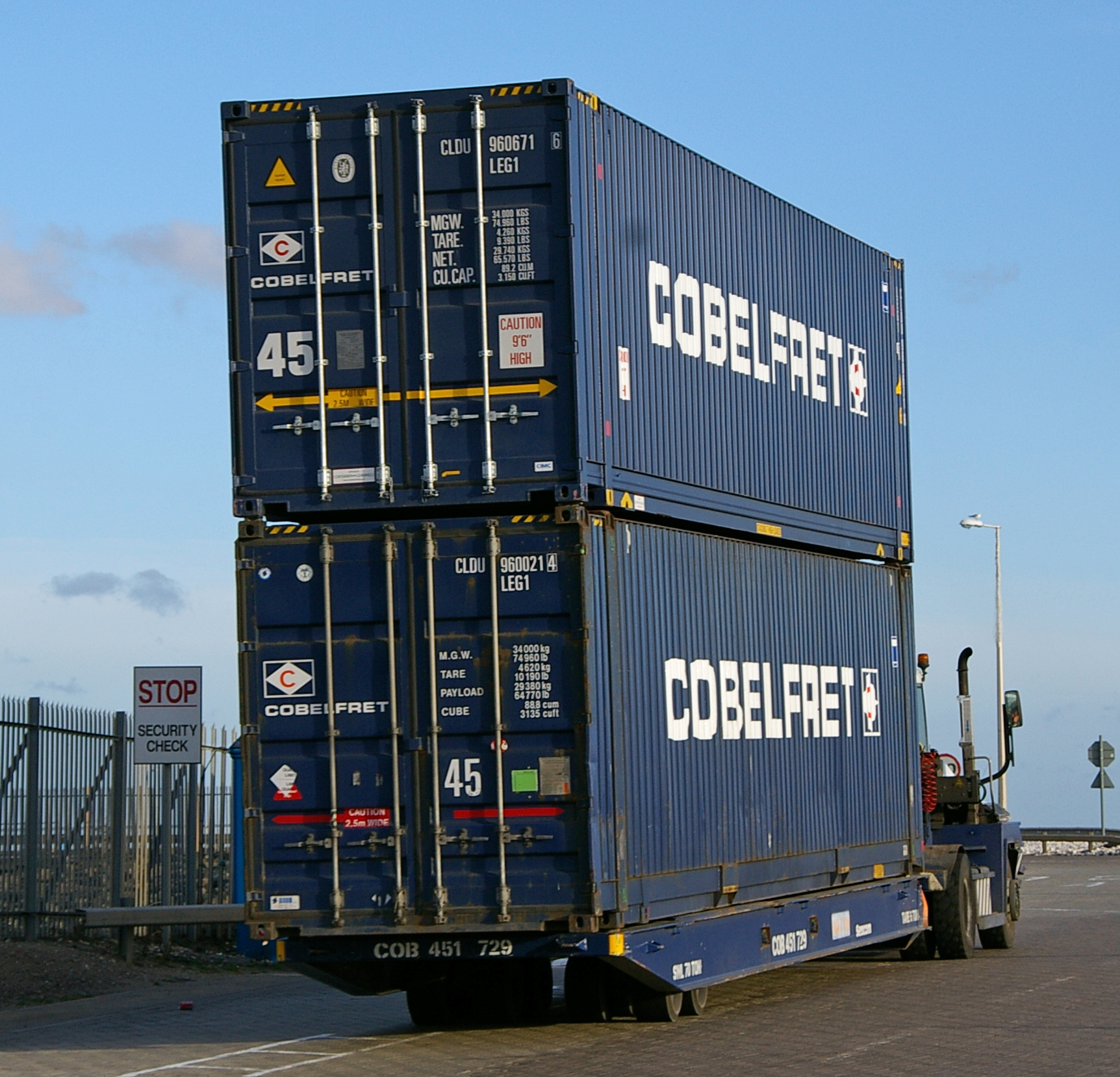 Terberg RoRo tractor towing stacked Cobelfret containers up the causeway for loading. These boxes are marked as having a net capacity of 29,740kg.